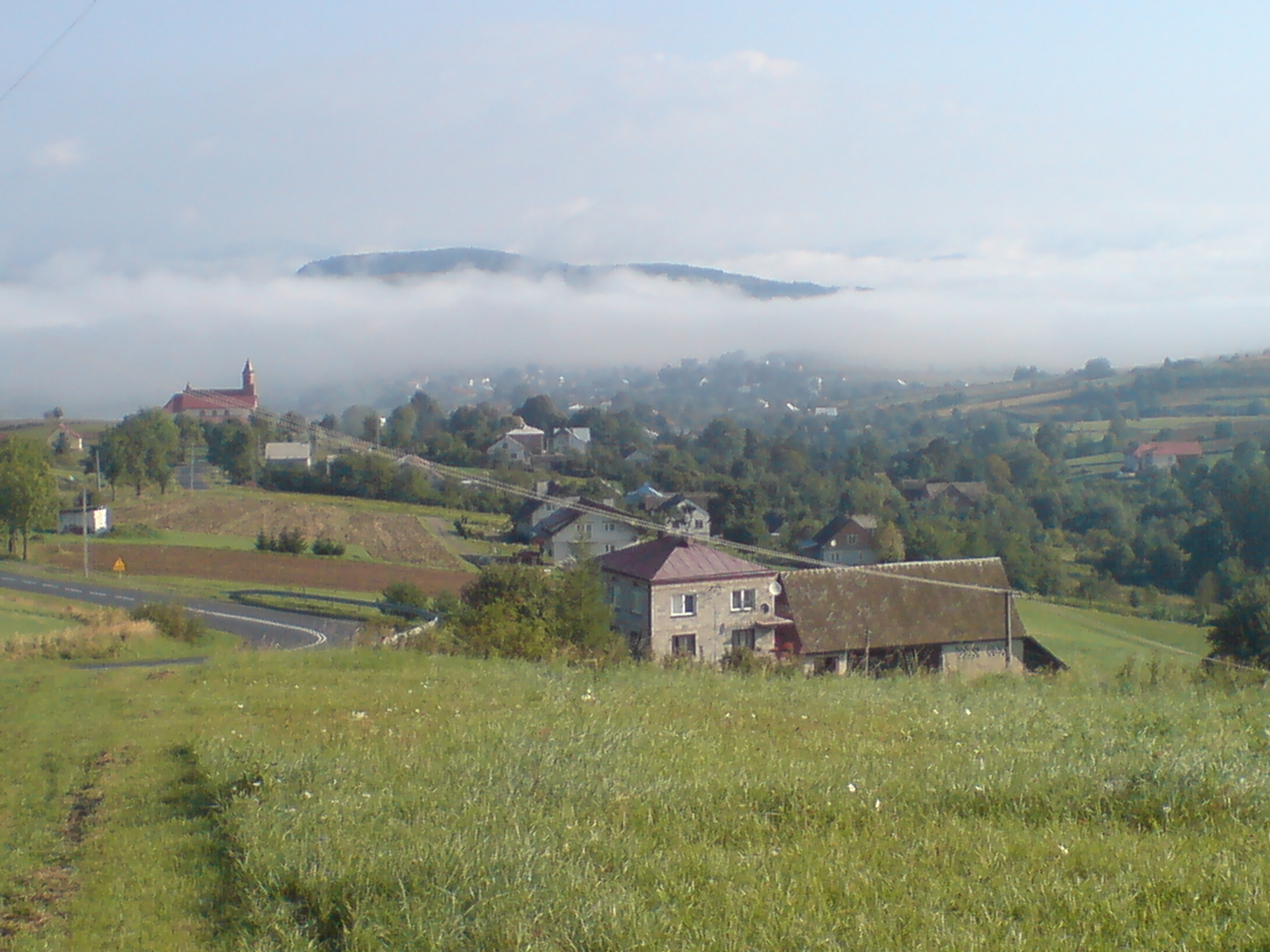 Czaszyn in the fog